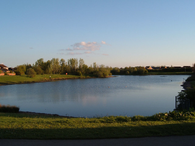 Rawcliffe Lake, North Yorkshire, a man made lake in the middle of a housing development.